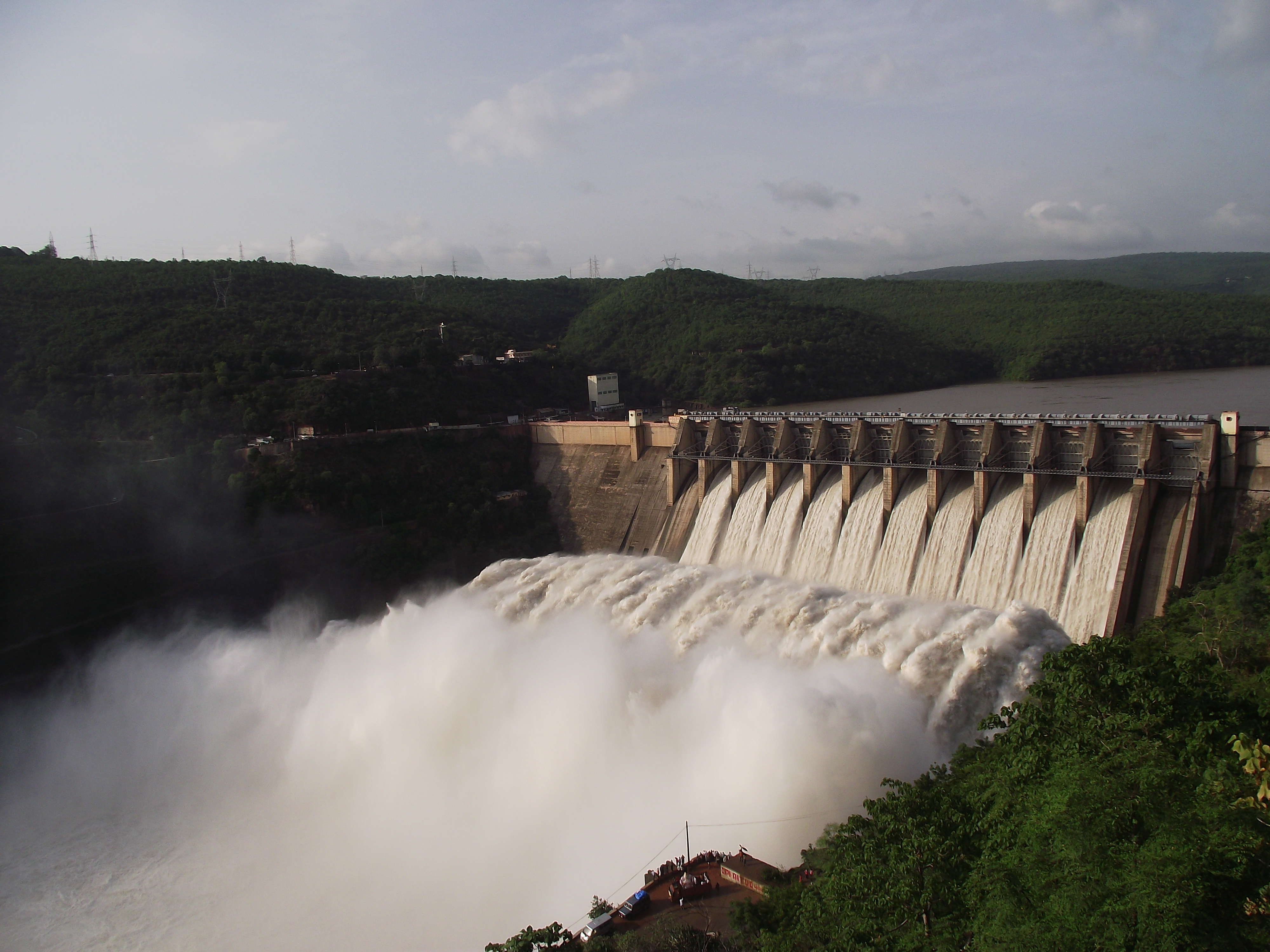 The above photography was taken near srisailam, when ten gates of the dam are open